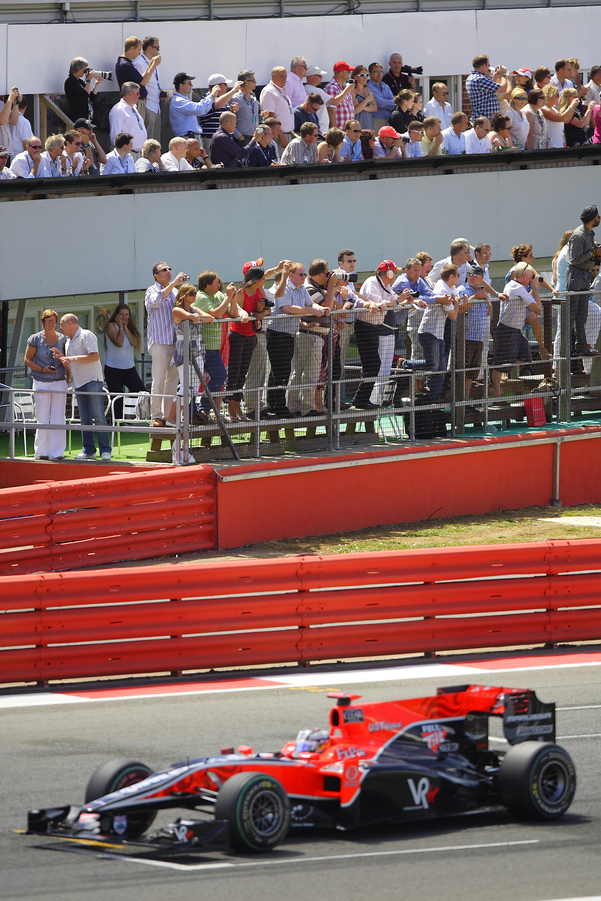 Timo Glock driving for Virgin Racing at the 2010 British Grand Prix. Photographer: Andrew Hoskins.